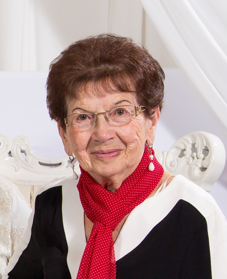 Batsheva Dagan